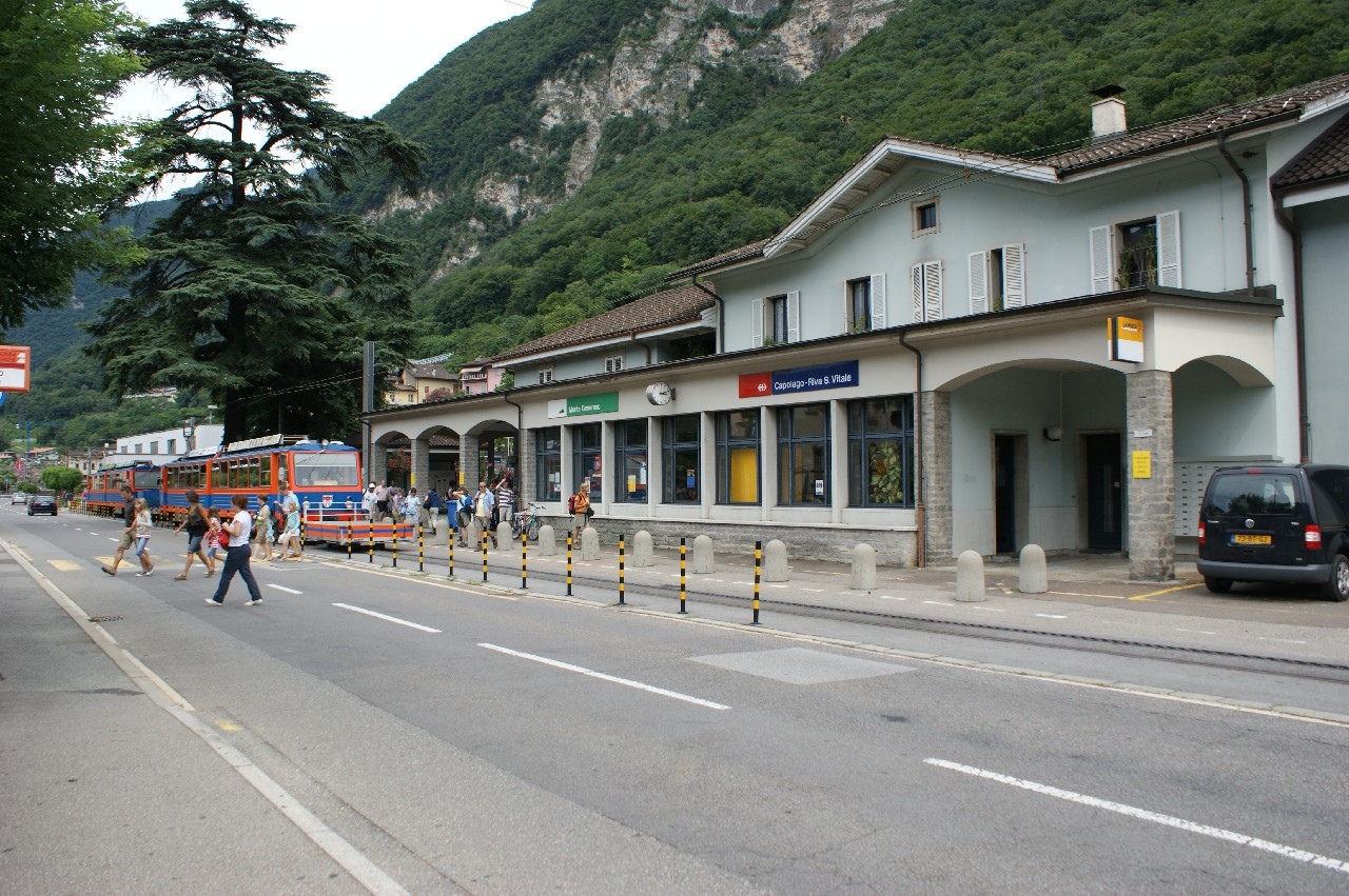 Bhe 4/8 14 with M8 and 13 with M11 of the Monte Generoso Railway in front of Capolago-Riva S. Vitale station